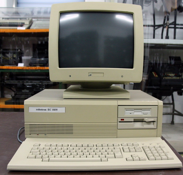 Robotron Personalcomputer EC 1835 Prototype (1990), recorded in "Industriemuseum Chemnitz", Germany